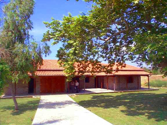 Outside view, image from the Archaeological Museum, Olynthos, Central Macedonia, Greece